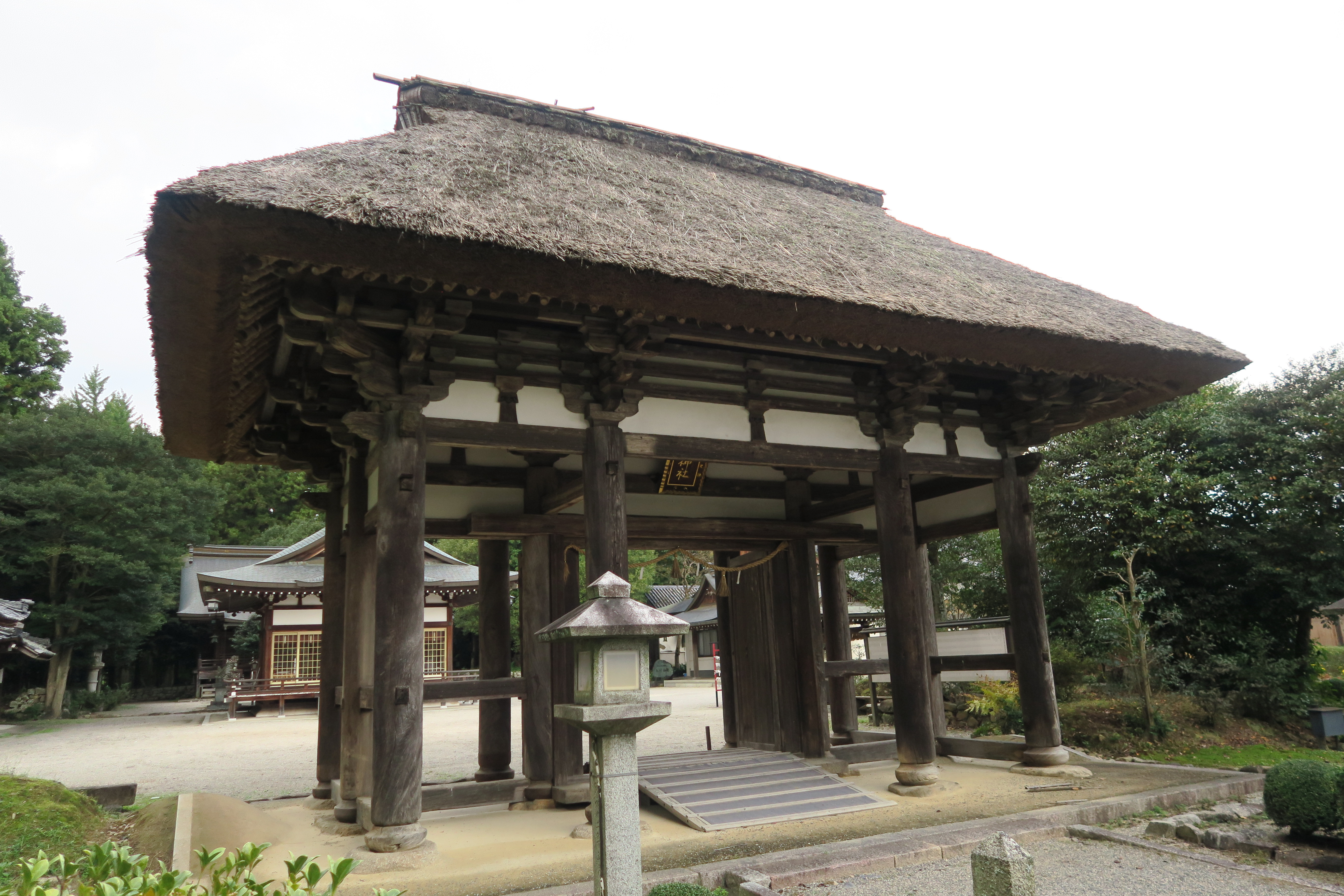 Rōmon at Yagawa-jinja, Koka, Shiga, Japan